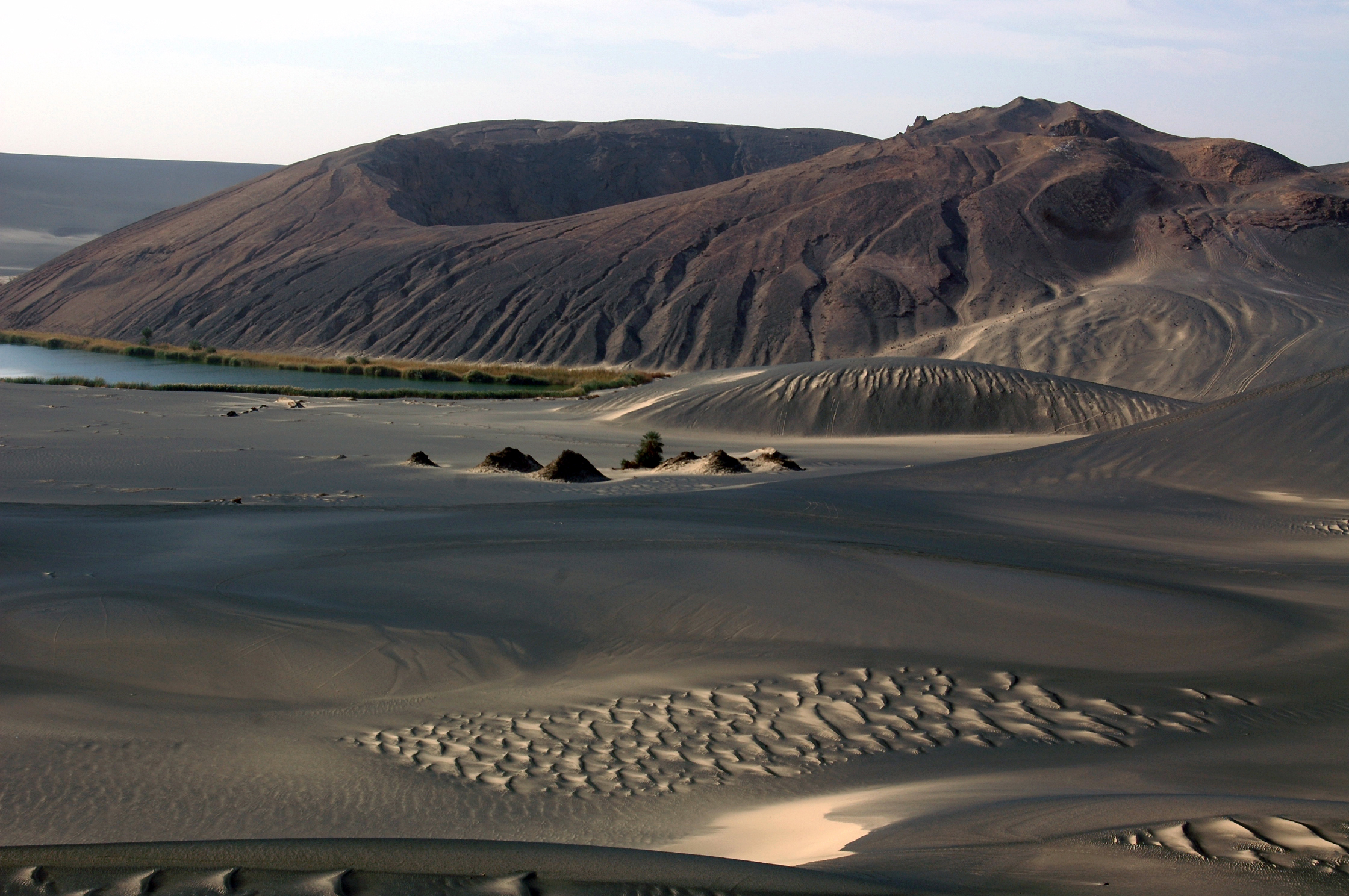 Scoria cone in Wau-en-Namus caldera, Libya.